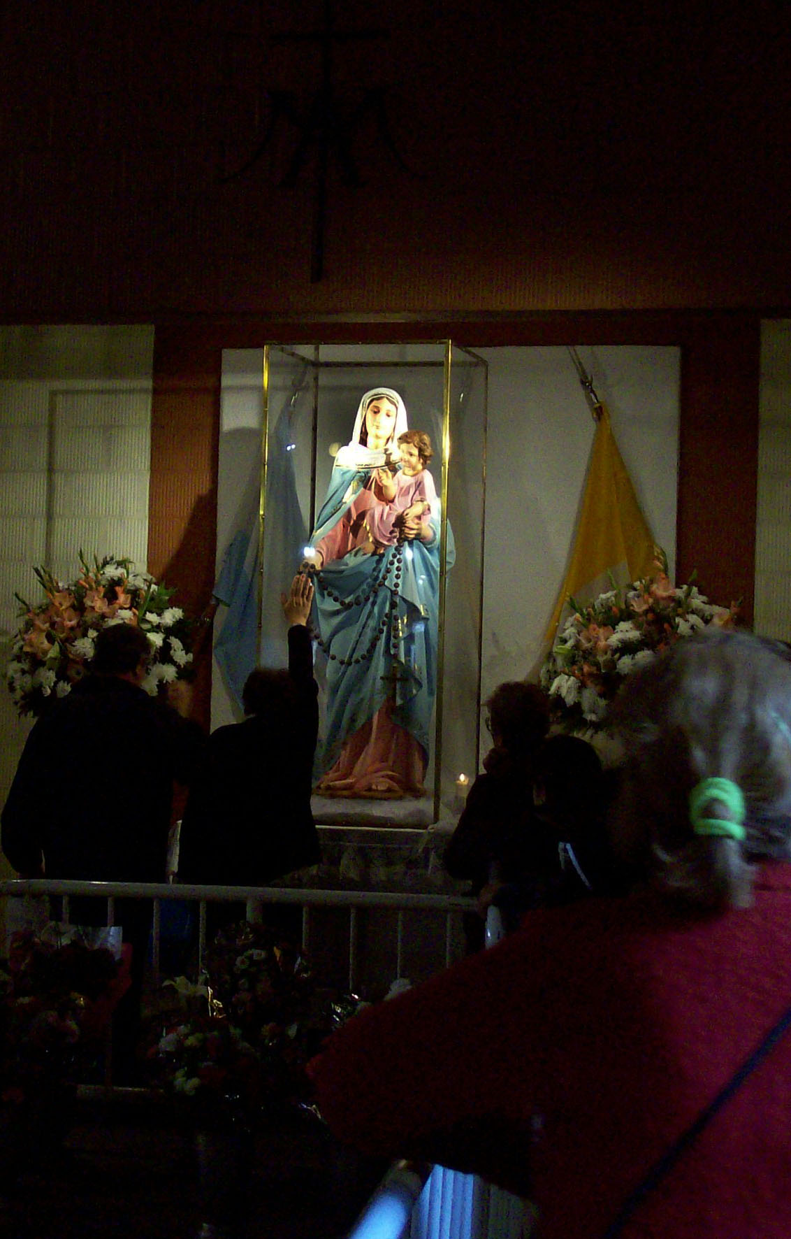 Pilgrins in line, waiting to see the holy image of Nuestra Señora del Rosario de San Nicolás (Virgin Mary of San Nicolás) inside the Sanctuary built in her honor. San Nicolás de los Arroyos, Buenos Aires, Argentina.